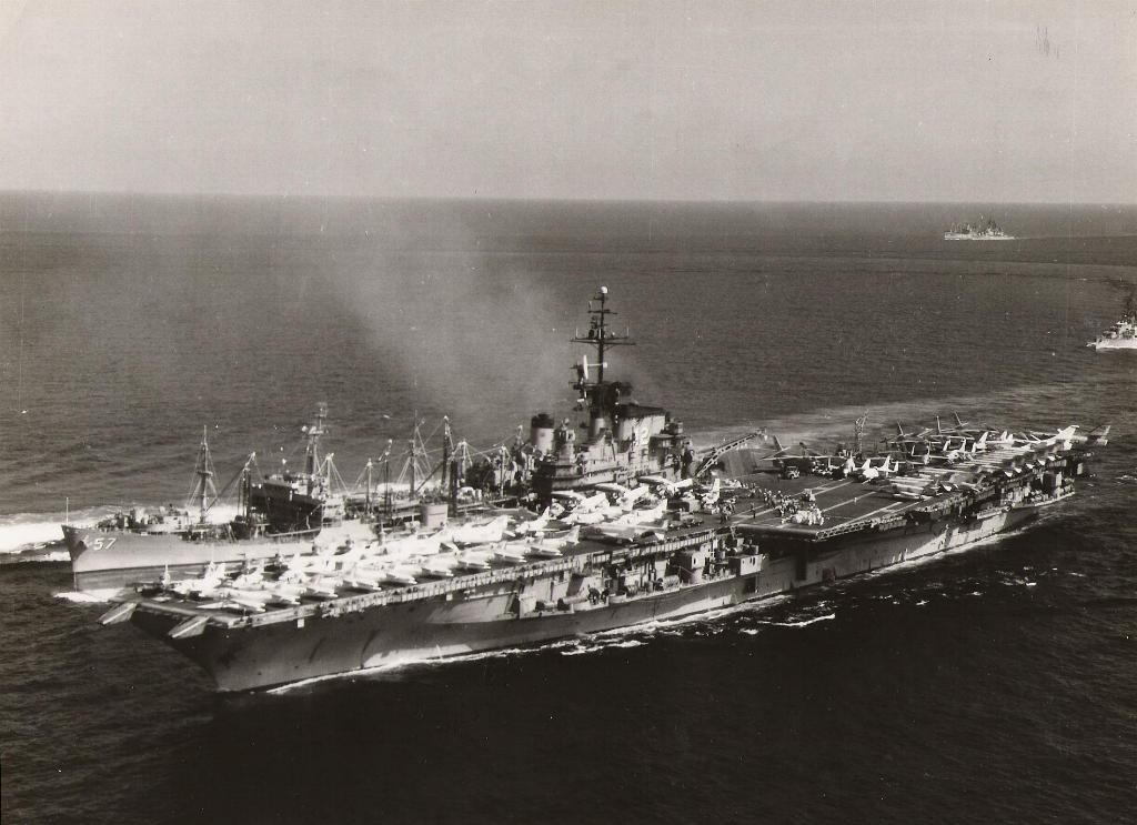 Ships of the battlegroup around the U.S. aircraft carrier USS Franklin D. Roosevelt (CVA-42) during an underway replenishment in 1966. The FDR is being refueled by fleet oiler USS Marias (AO-57), while many of the aircraft of Attack Carrier Air Wing 1 (CVW-1) are spotted on deck.